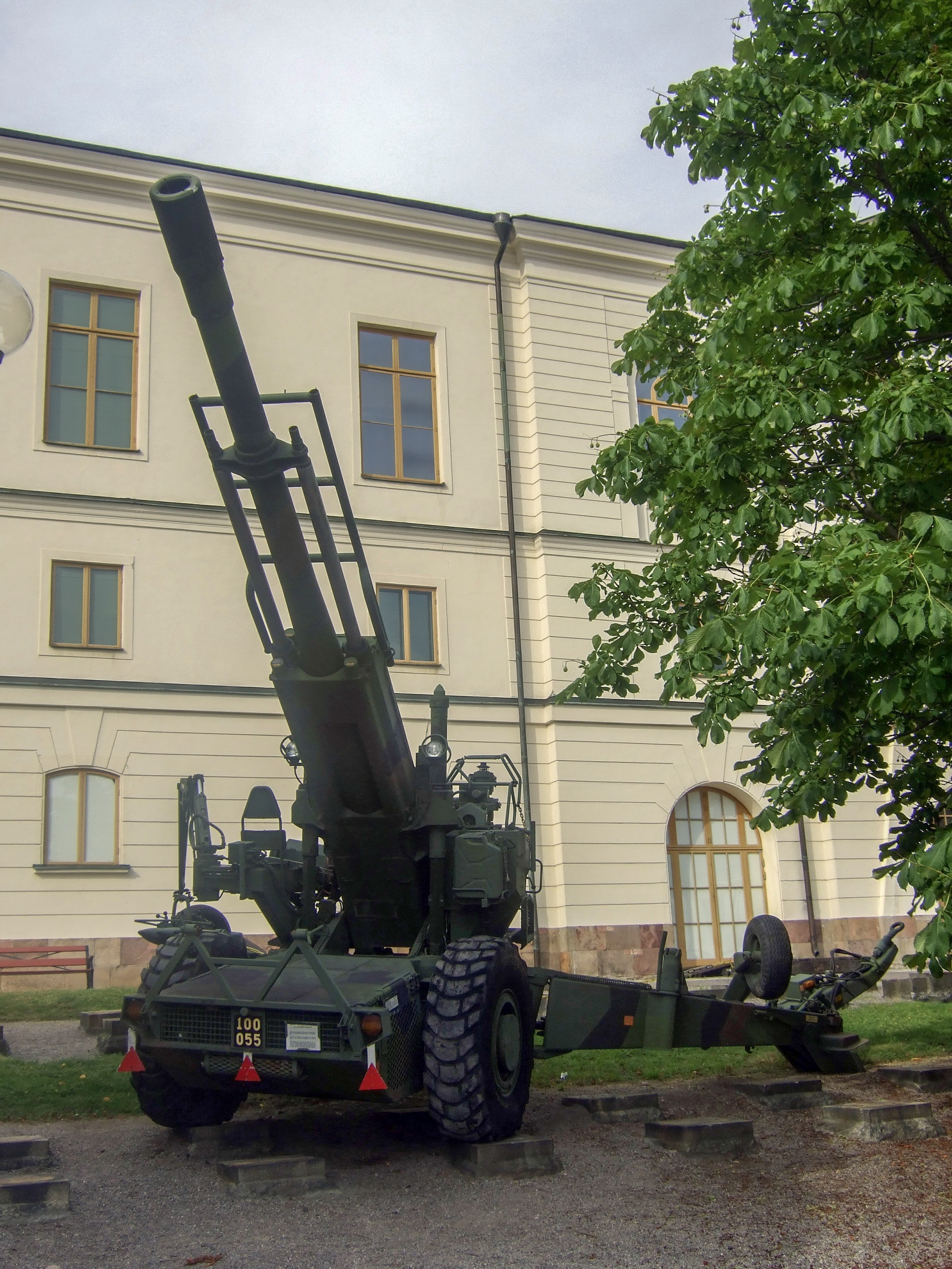 A Haubits 77 at display outside the Army Museum in Stockholm